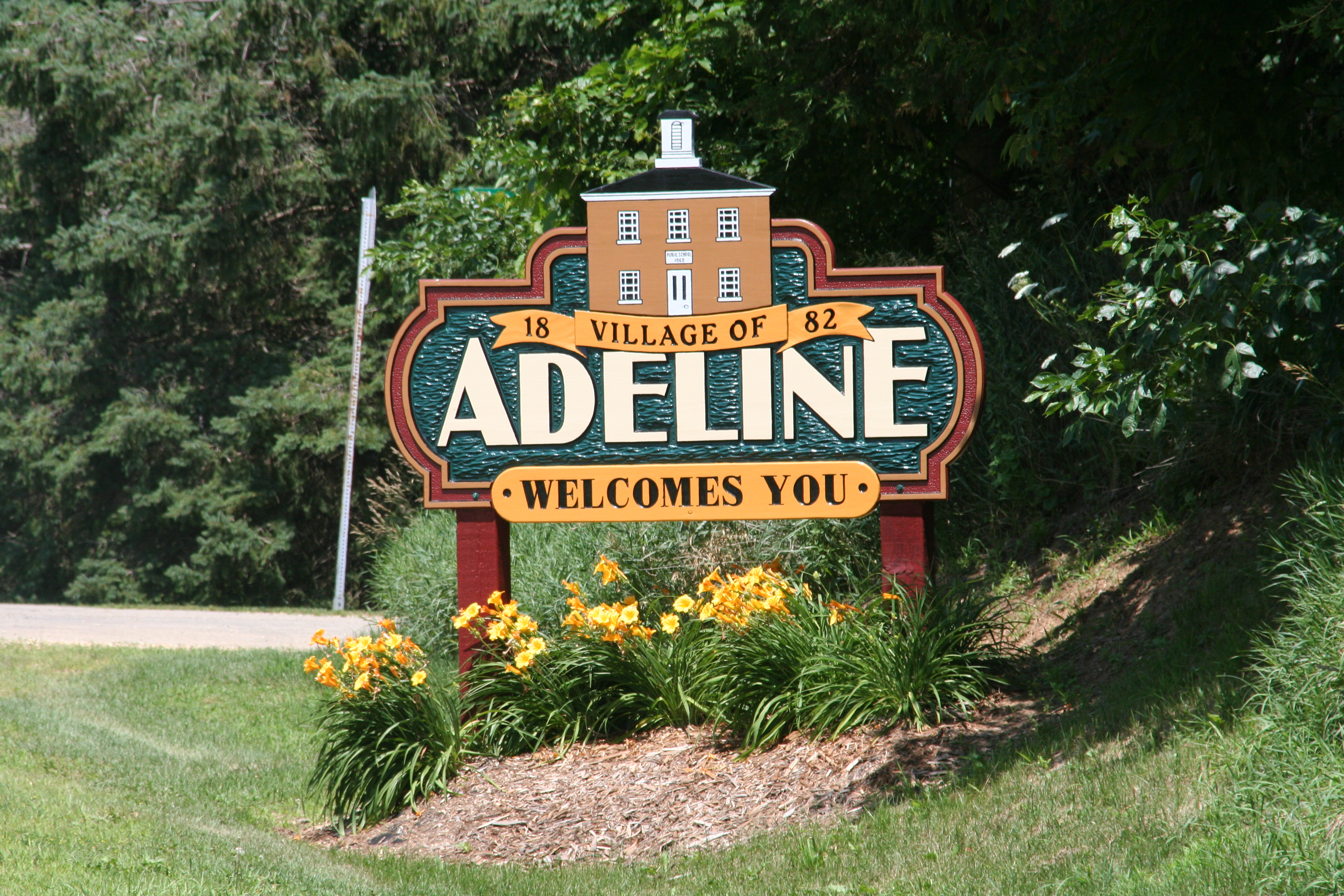 Picture of the sign leading into the south side of Adeline, Illinois, USA.